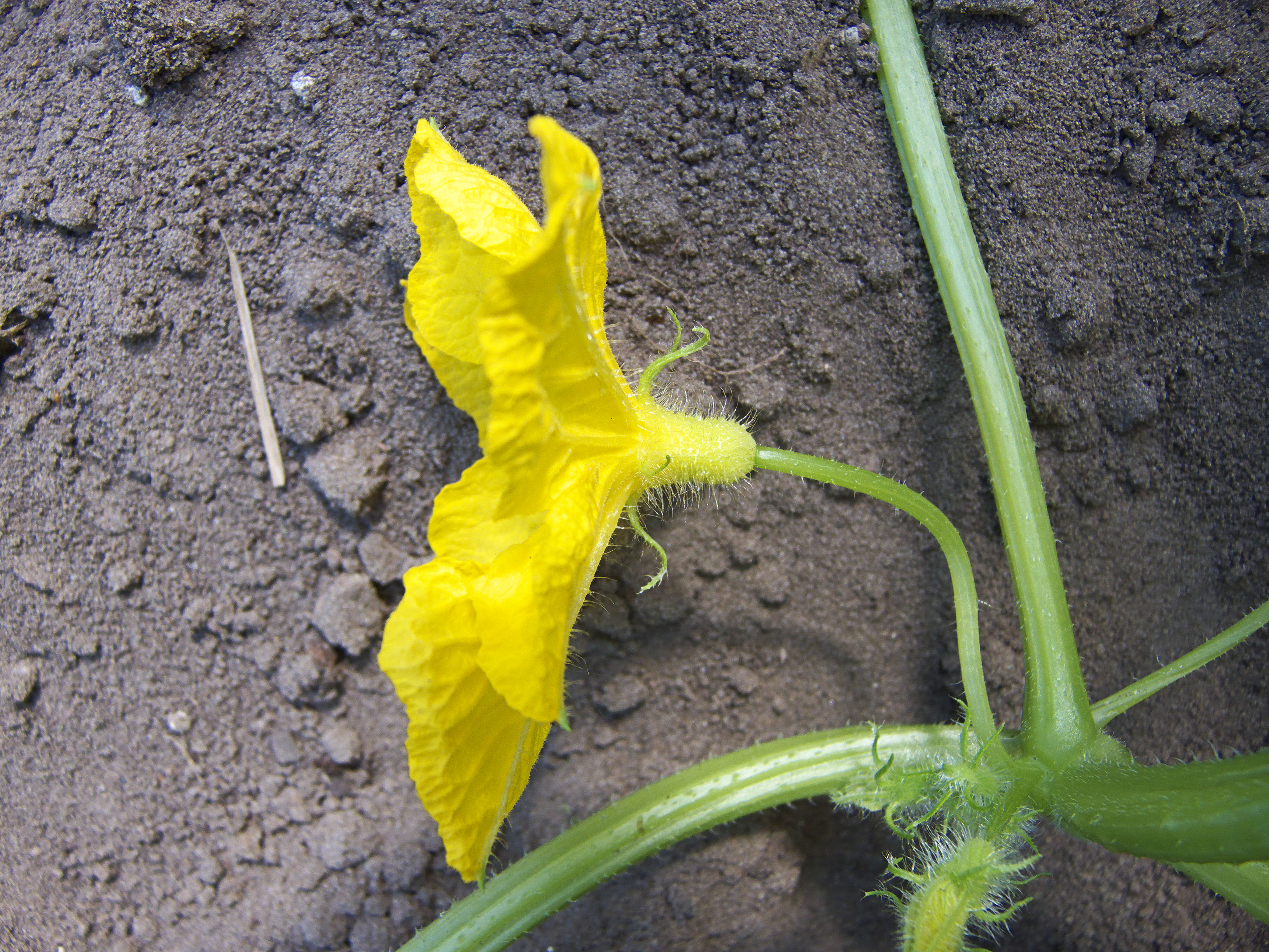 Cucumis_sativus_cucumber_male_flower, variety 'Gele Tros'